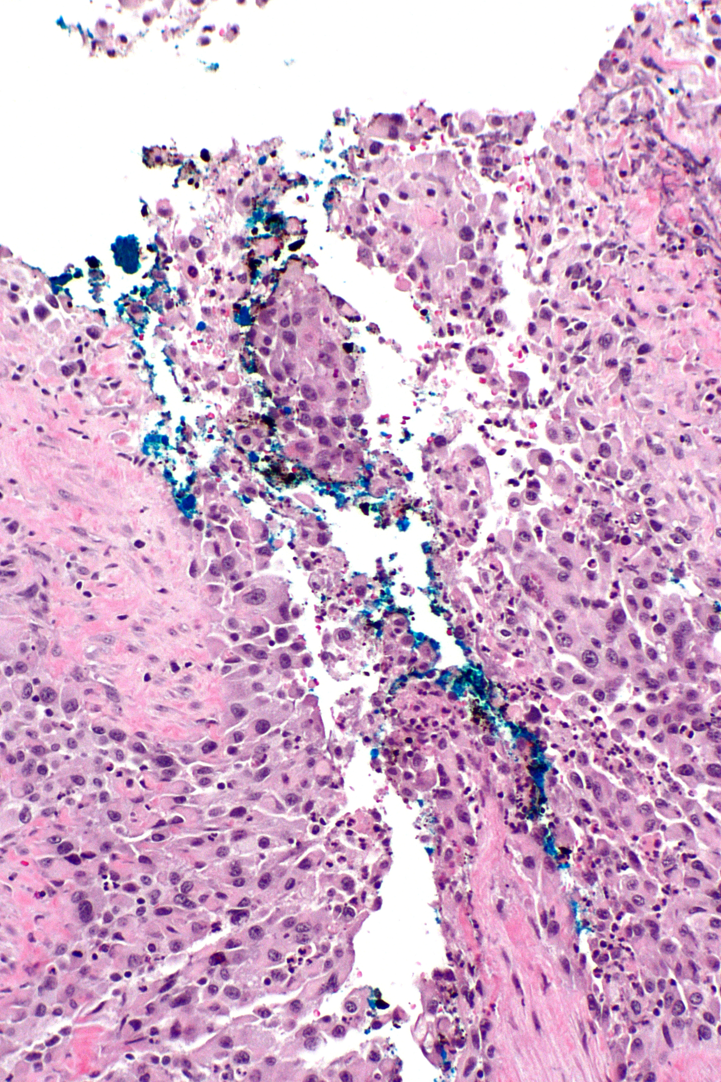 Micrograph showing a postive surgical margin in a case of urothelial carcinoma. H&E stain. Related images UCC pos. margin - intermed. mag. UCC pos. margin - high mag. UCC pos. margin - very high mag. UCC pos. margin - intermed. mag. UCC pos. margin - high mag.